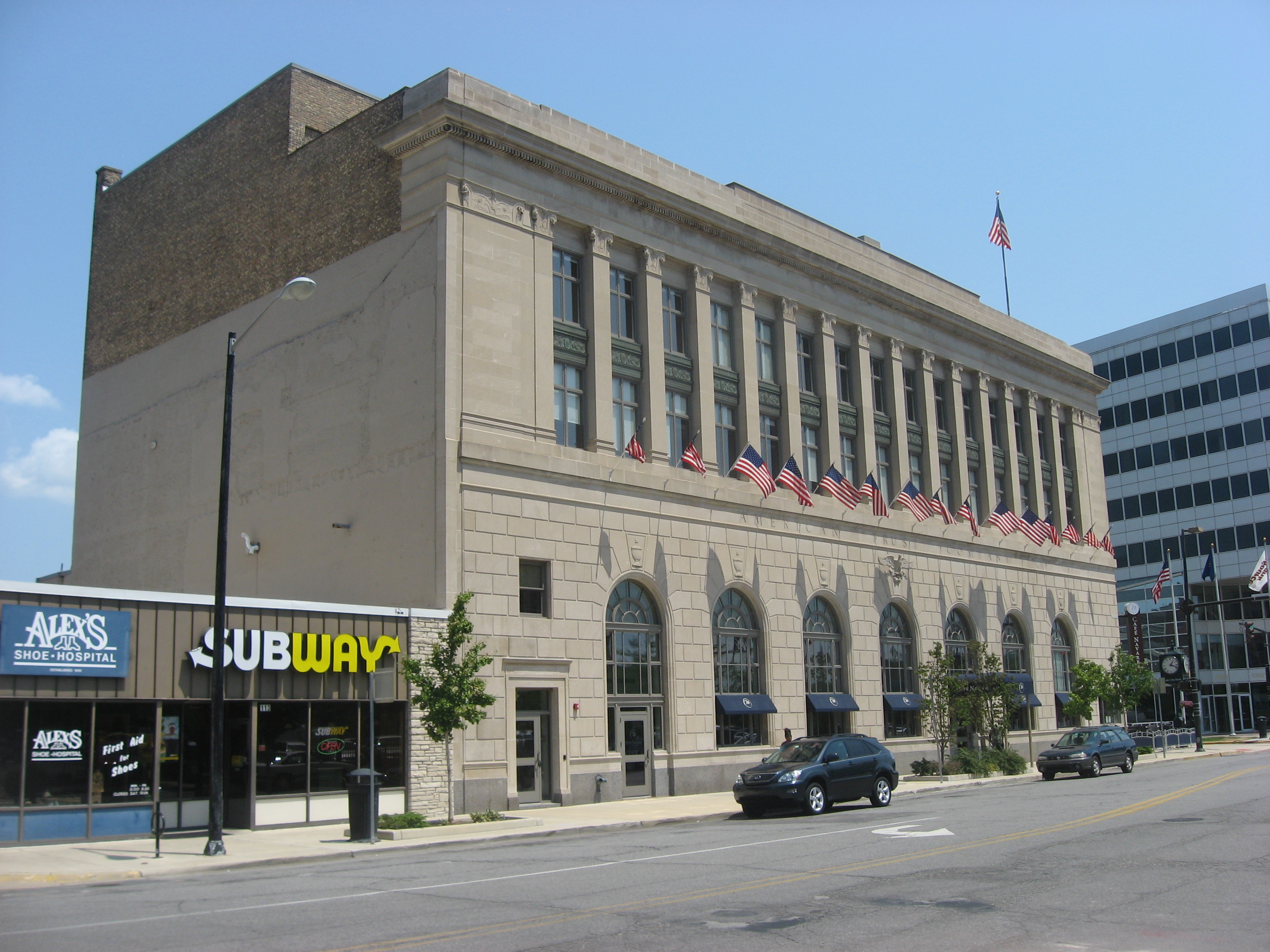 Front and western side of the All American Bank Building, located at 111 W. Washington Street in South Bend, Indiana, United States. Built in 1924, it is listed on the National Register of Historic Places.